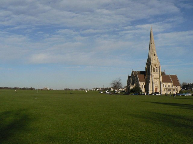 View northeast across part of Blackheath, London, with All Saints' parish church on the right